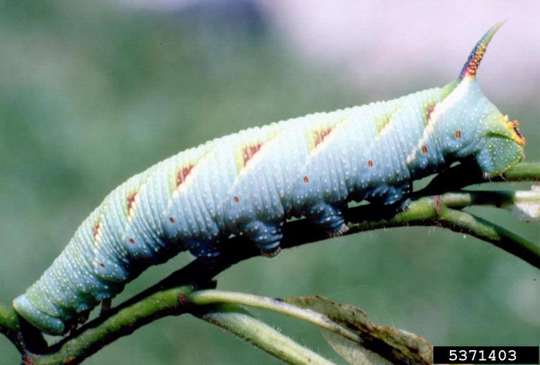 Larva of Mimas tiliae from Hungary